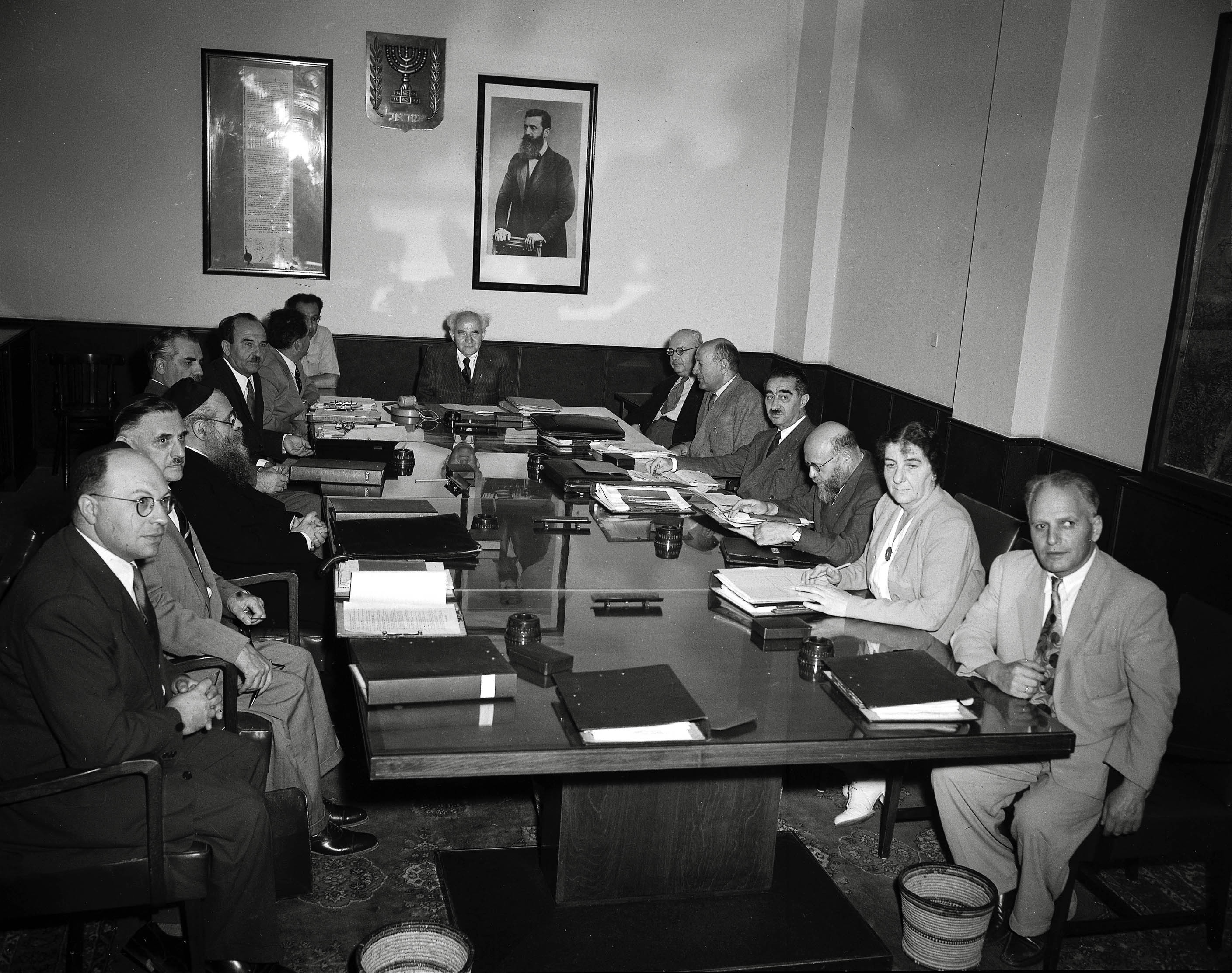 First meeting of the new 3rd cabinet. Left-Right MESSRS. Burg, Pinkas, Levin, Shapira, Eshkol, Sherf?, Ben-Gurion, Naphtali, Kaplan, Yosef, Dinur, Golda Meir & Shitreet.